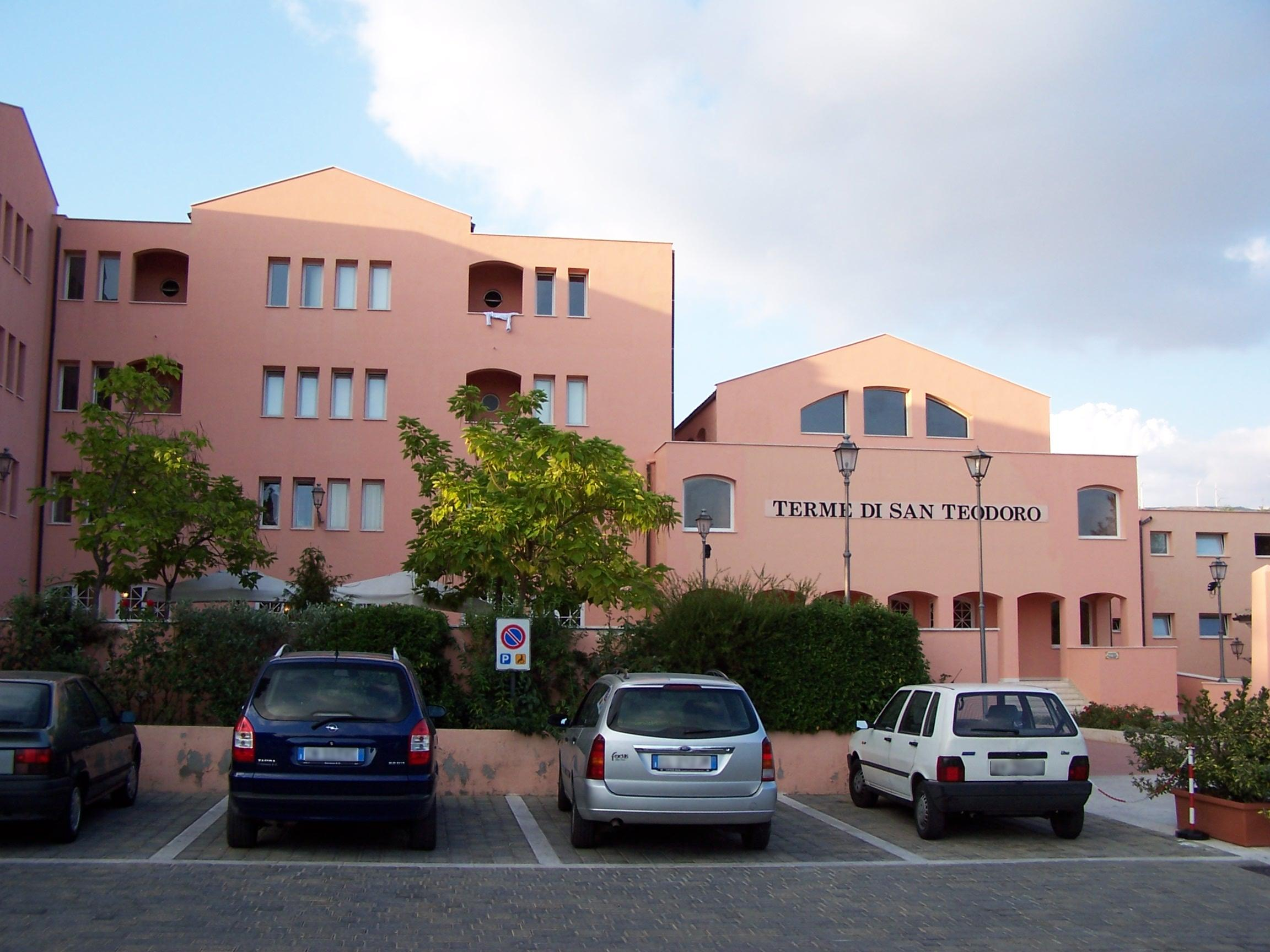 "Thermal baths of Saint Teodoro" - Villamaina (AV) - Italy Author: Roberto Petruzzo - 2005